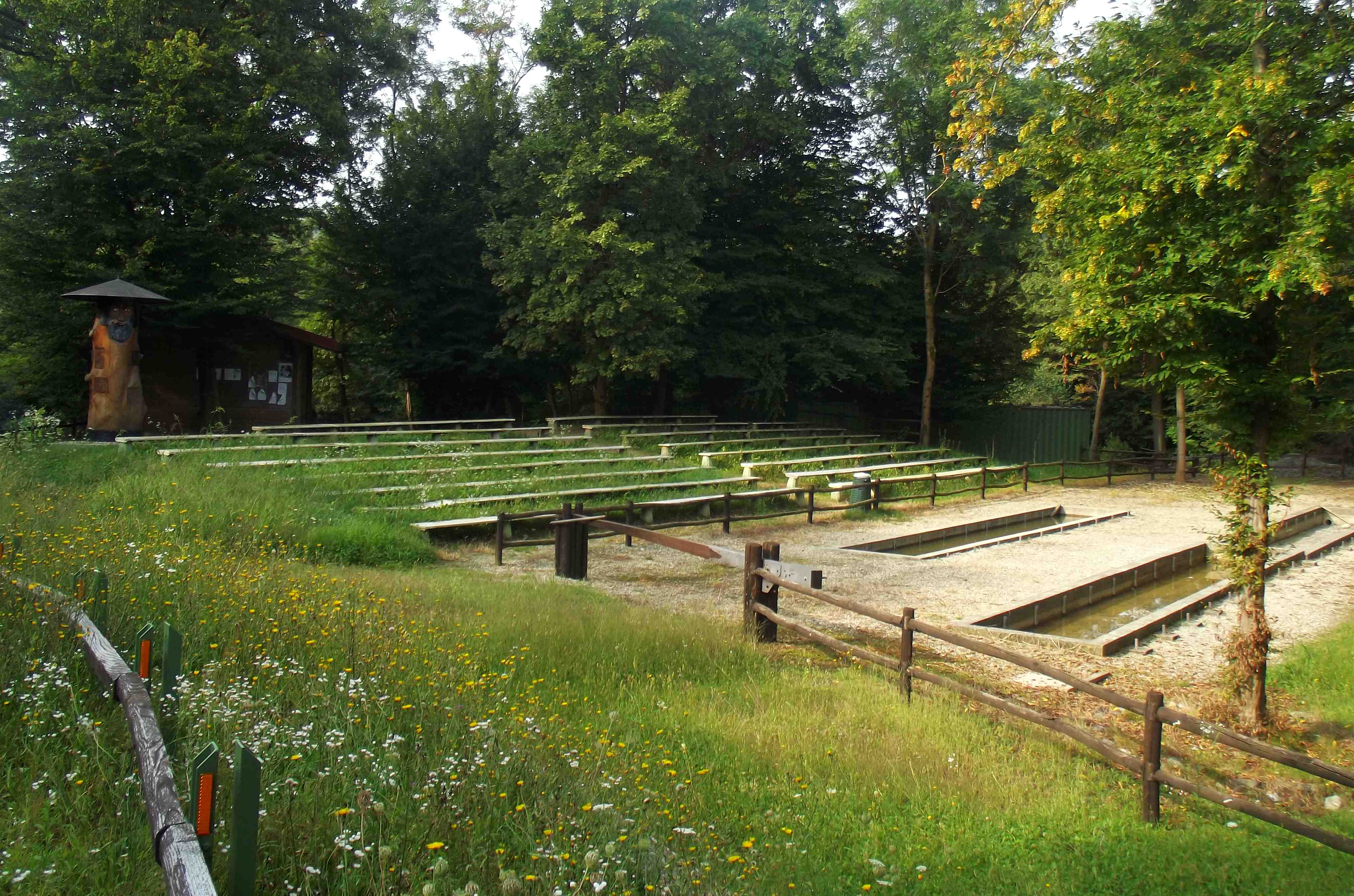 Gold panning championships area in Vermogno (Zubiena, BI, Italy)